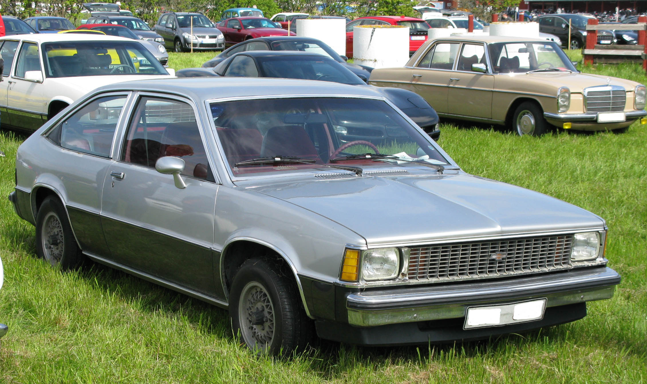 1980 Chevrolet Citation Event: Tjolöholm Classic Motor 2015